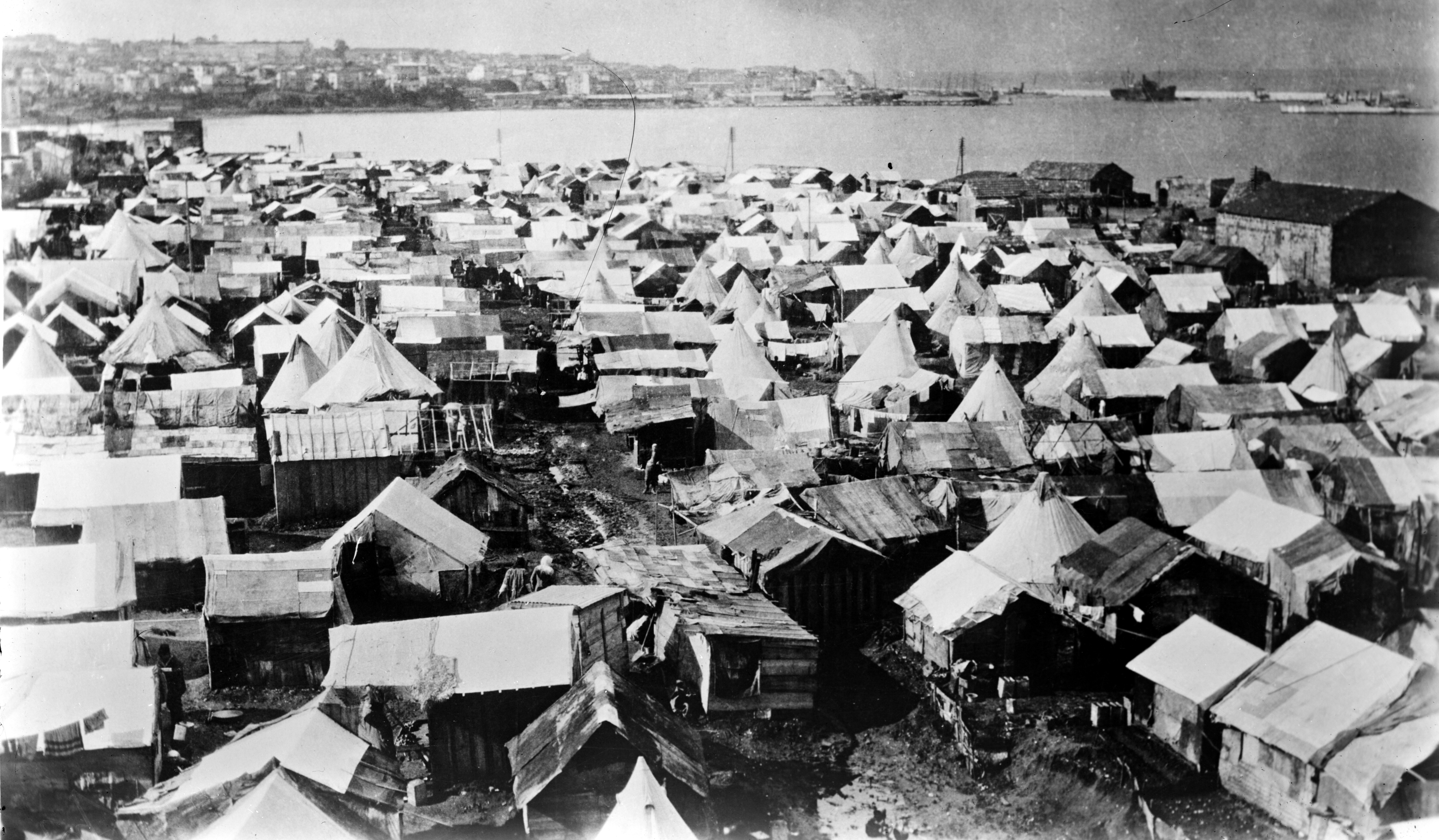 Public Domain. Suggested credit: Bain/Library of Congress via pingnews. Additional information from source: TITLE: Refugee camp, Beirut CALL NUMBER: LC-B2- 5949-14[P&P] REPRODUCTION NUMBER: LC-DIG-ggbain-35636 (digital file from original negative) No known restrictions on publication. MEDIUM: 1 negative : glass ; 5 x 7 in. or smaller. CREATED/PUBLISHED: [no date recorded on caption card] NOTES: Title from unverified data provided by the Bain News Service on the negatives or caption cards. Forms part of: George Grantham Bain Collection (Library of Congress). Temp. note: Batch eight loaded. FORMAT: Glass negatives. REPOSITORY: Library of Congress Prints and Photographs Division Washington, D.C. 20540 USA DIGITAL ID: (digital file from original neg.) ggbain 35636 CARD #: ggb2006011049